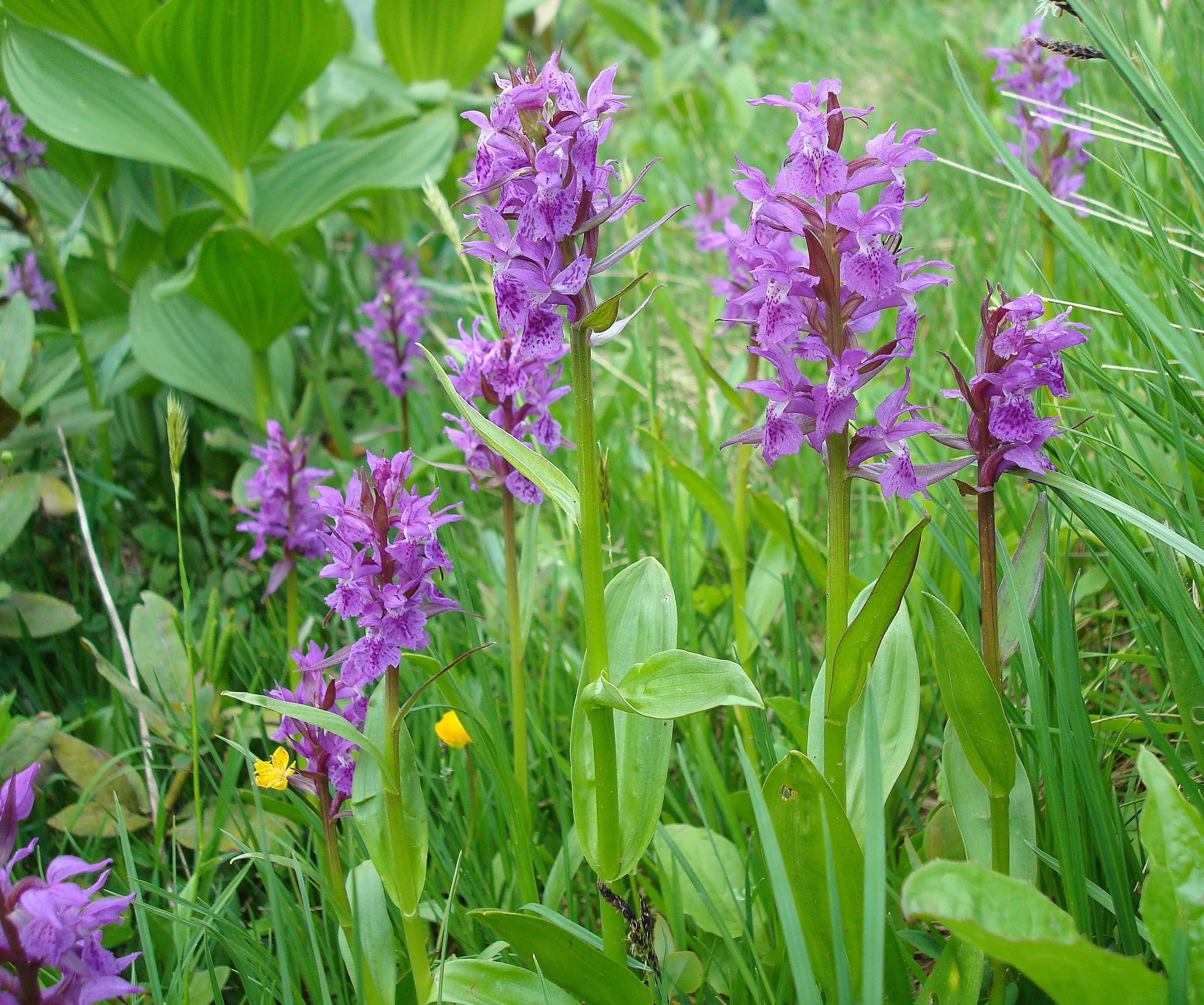 Orchis coriophora. Wild-growing plant of Caucasus Biosphere Reserve. This image is related to the protected area of Russia number 2300002